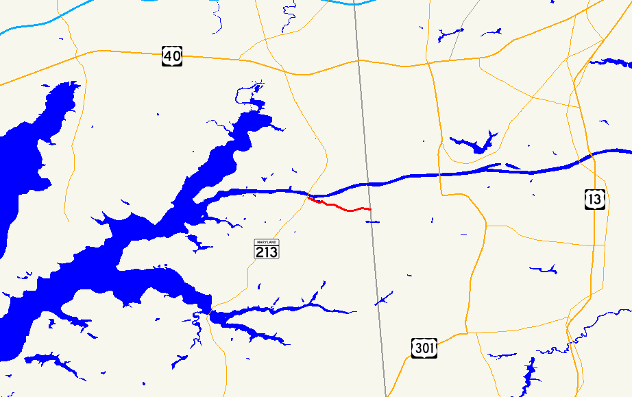 Map of Maryland Route 286